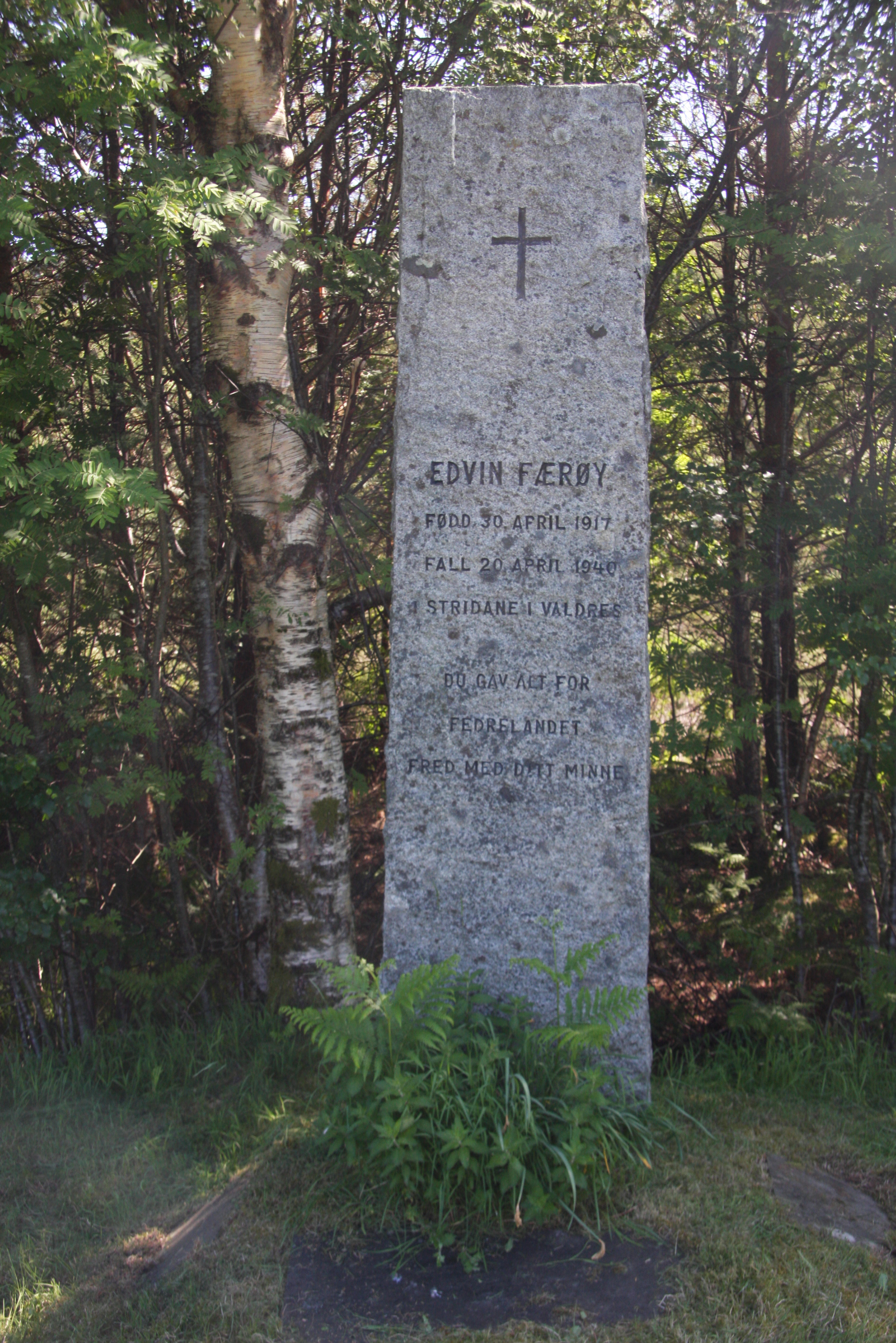 Rutle in Gulen municipality, Norway.